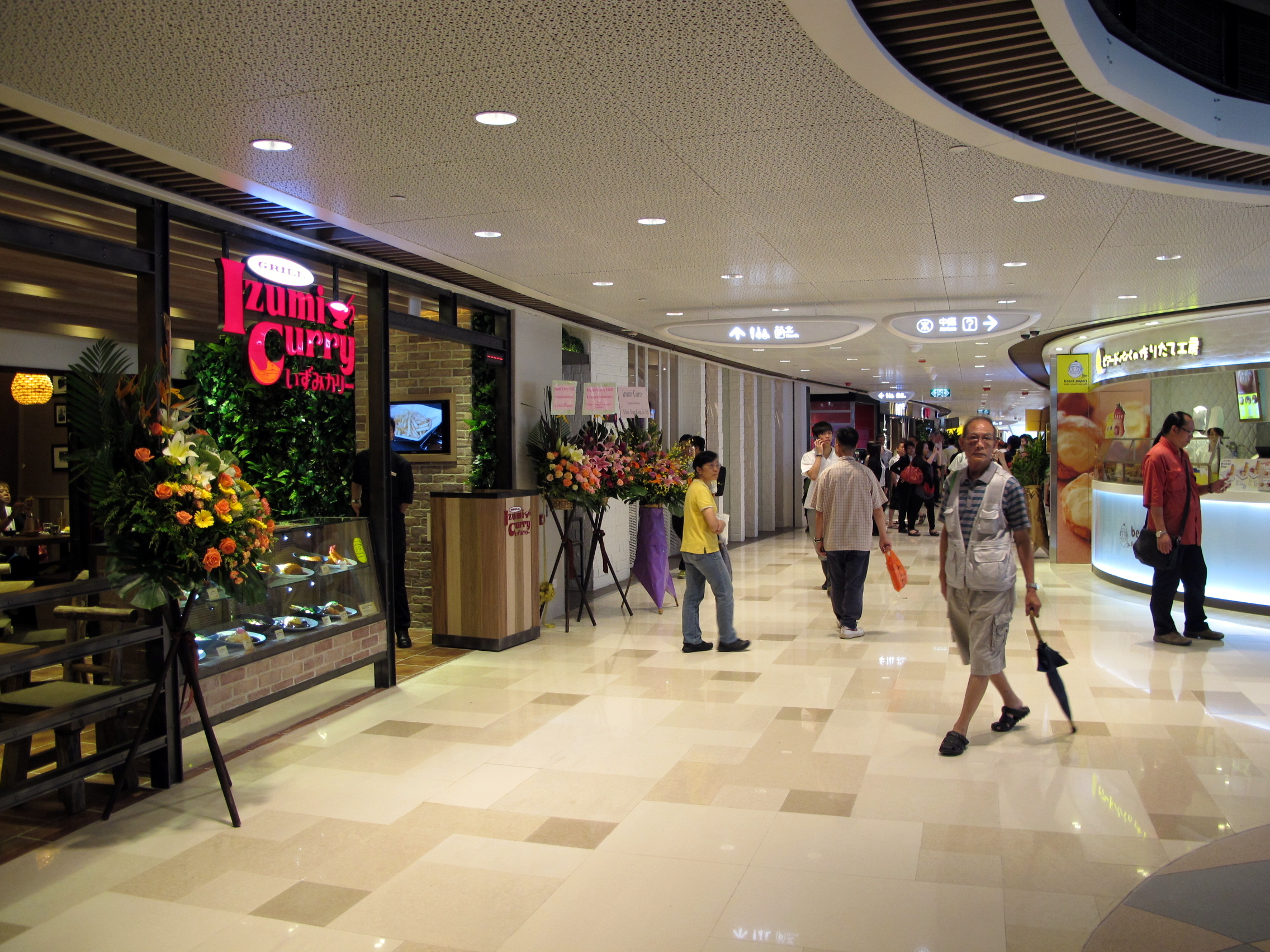 V City Level 1 FOOD SPOT